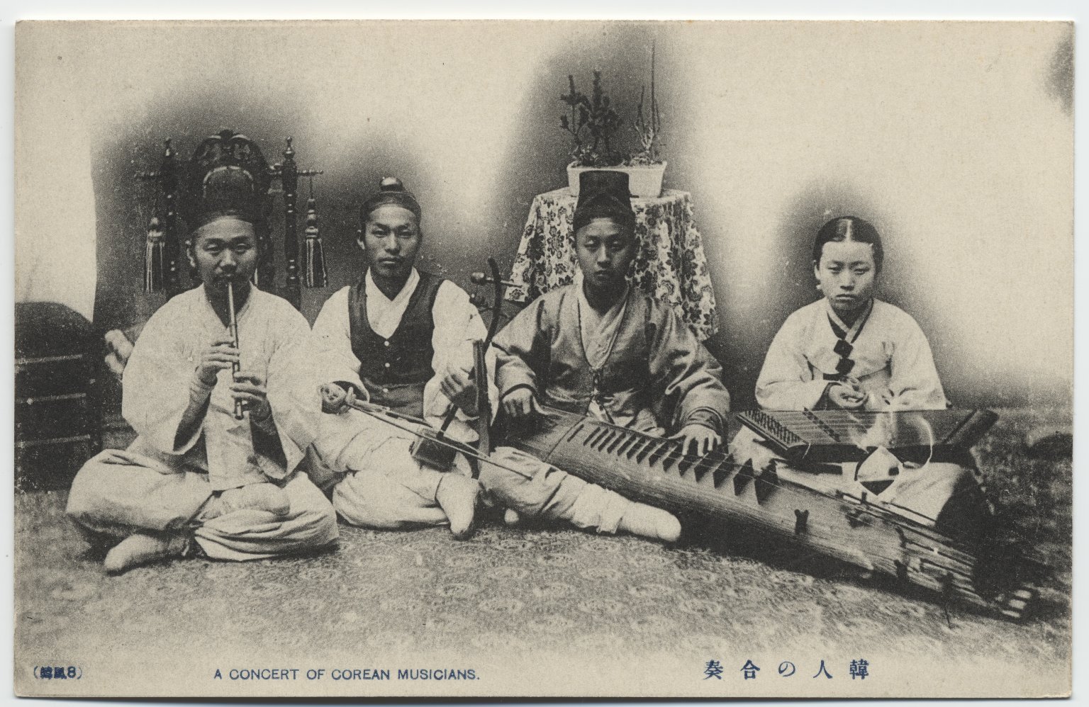 Collection: Willard Dickerman Straight and Early U.S.-Korea Diplomatic Relations, Cornell University Library Title: A concert of Corean musicians Date: ca. 1904 Place: Asia: South Korea Type: Postcards/Ephemera Description: The postcard shows four musicians that play Korean traditional instruments. From the left the names of the instruments are 'piri' (flute), 'haegum' (two-stringed fiddle), 'komungo' (six-stringed zither), and 'kayagum' (twelve-stringed zither). All of these instruments can also be found in China and have a long-standing tradition. Inscription/Marks: Image imprinted with legend 'A concert of Corean musicians.' Identifier: 1260.74.10.08 Persistent URI: There are no known U.S. copyright restrictions on this image. The digital file is owned by the Cornell University Library which is making it freely available with the request that, when possible, the Library be credited as its source. We had some help with the geocoding from Web Services by Yahoo!